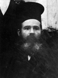 Georgios Siondis